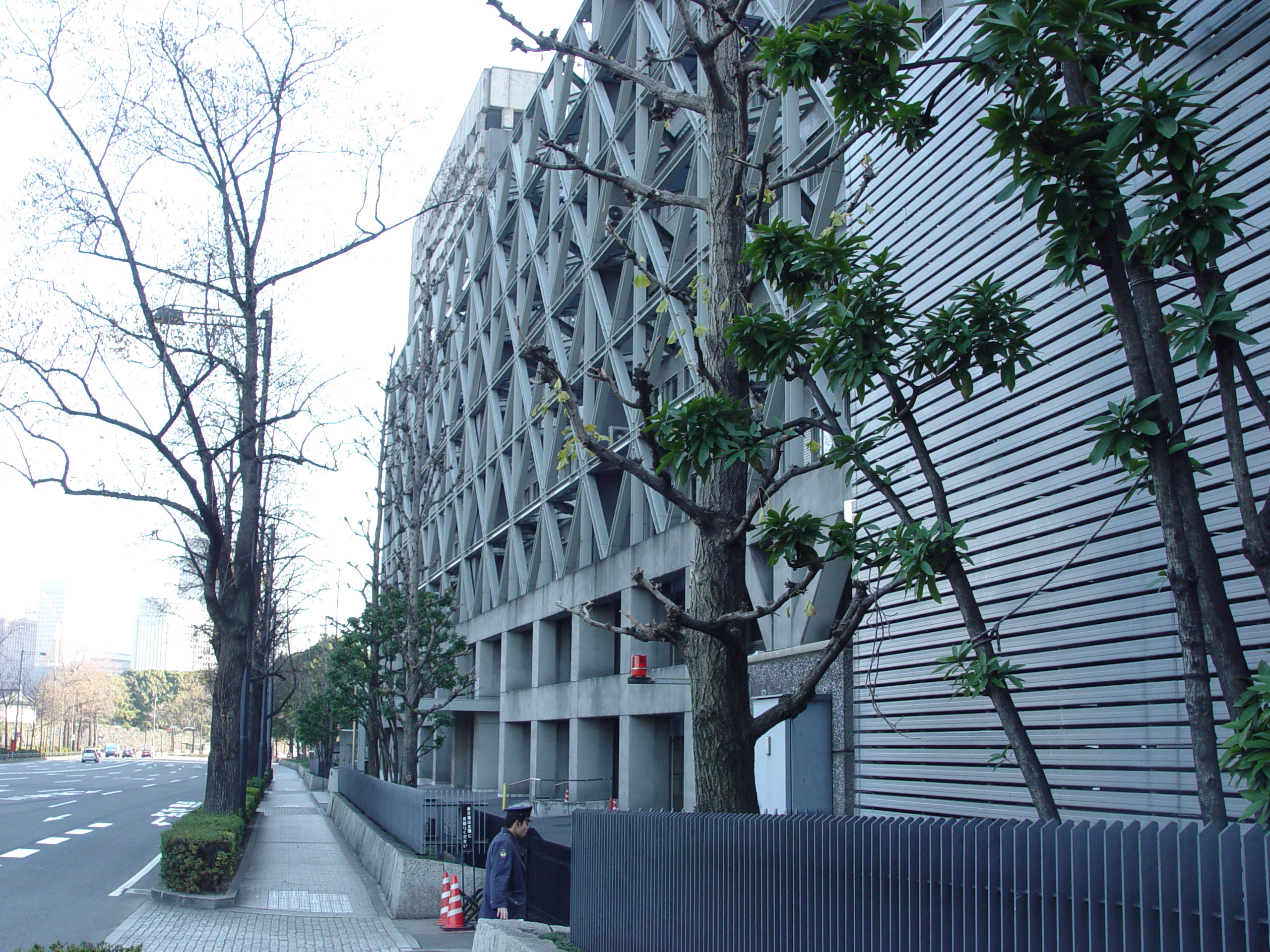 Public office building of the The National Police Agency, Japan 警察庁庁舎